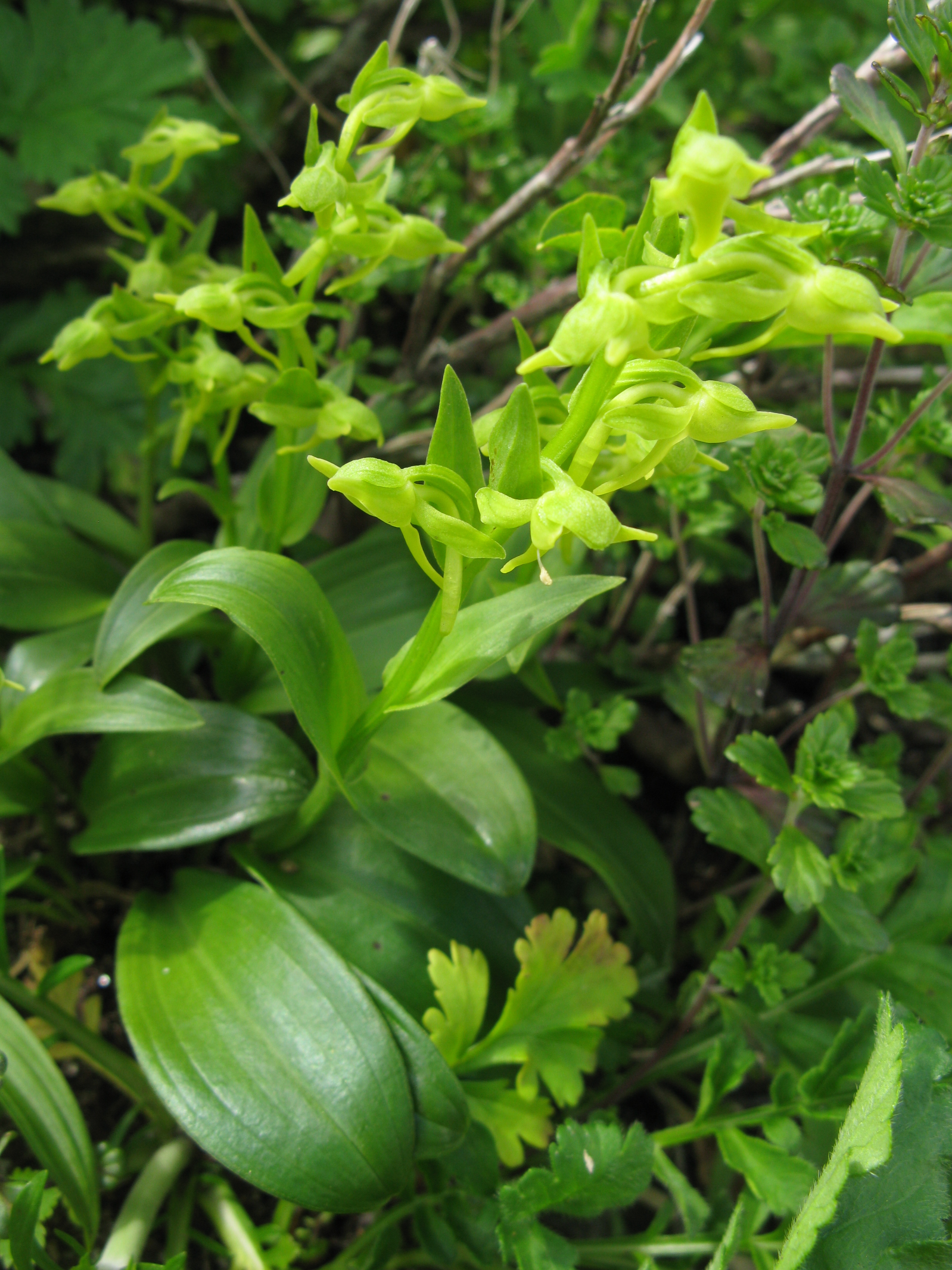 Platanthera maximowicziana, Mt. Iide, Fukushima pref., Japan